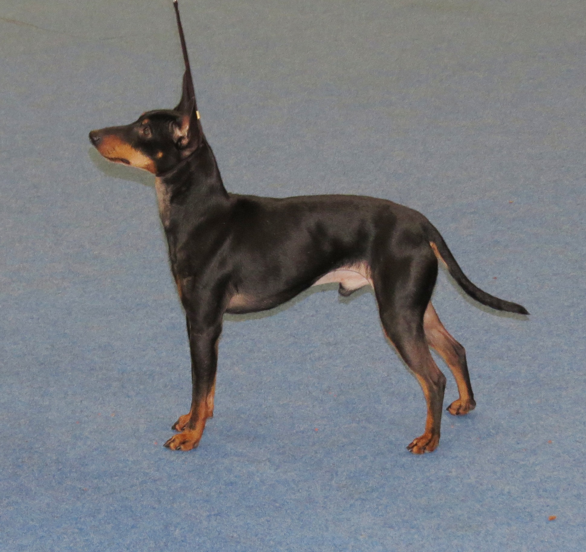 Koira 2013 Helsinki 13-15/12/2013